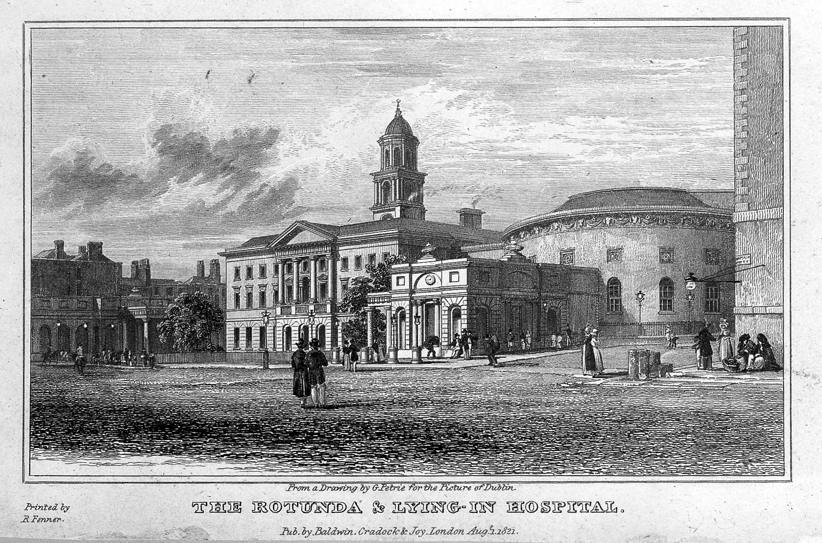 The Lying-in Hospital and Rotunda, Dublin, Ireland. Etching, 1821, after G. Petrie. Wellcome Images Keywords: George Petrie